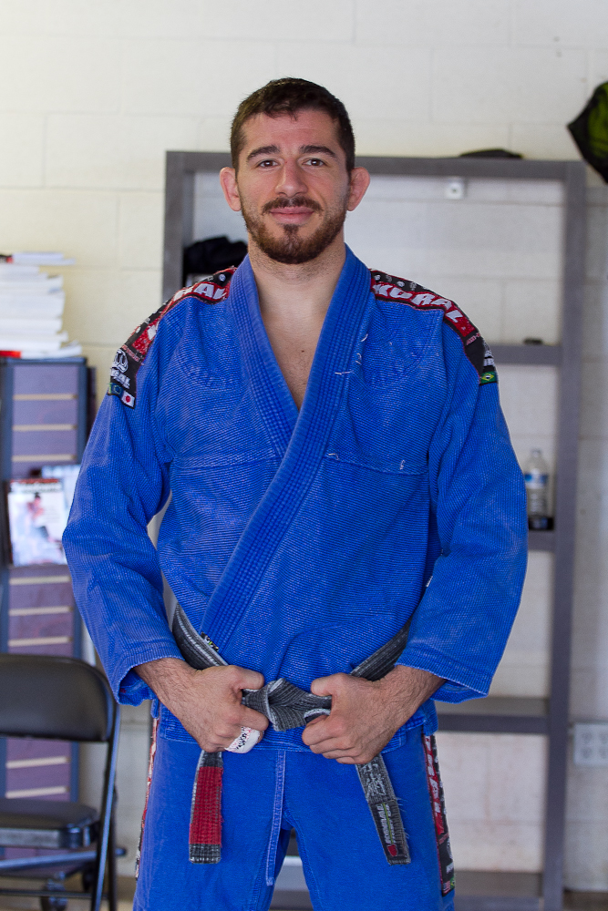 Marcos Torregrosa at Cassio Werneck academy